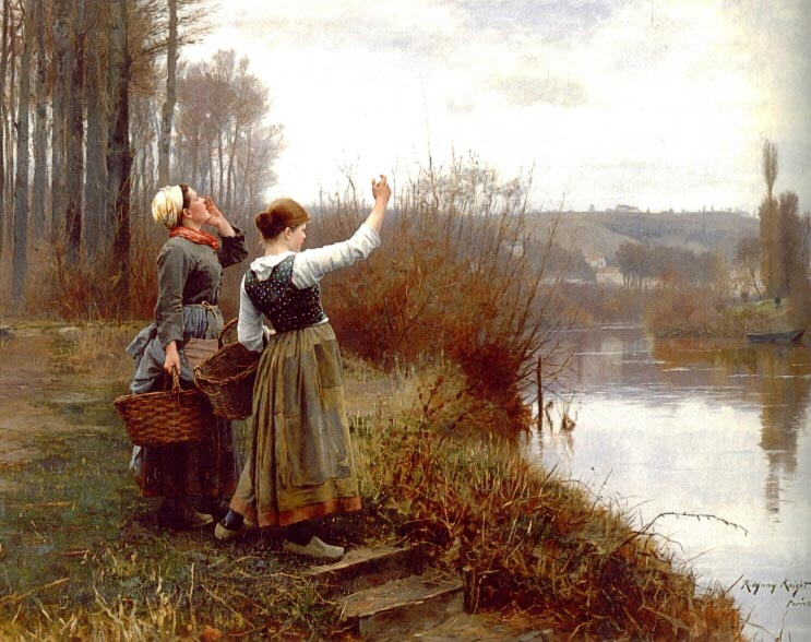 Hailing the Ferry, oil on canvas painting by Daniel Ridgway Knight, 1888, Pennsylvania Academy of the Fine Arts